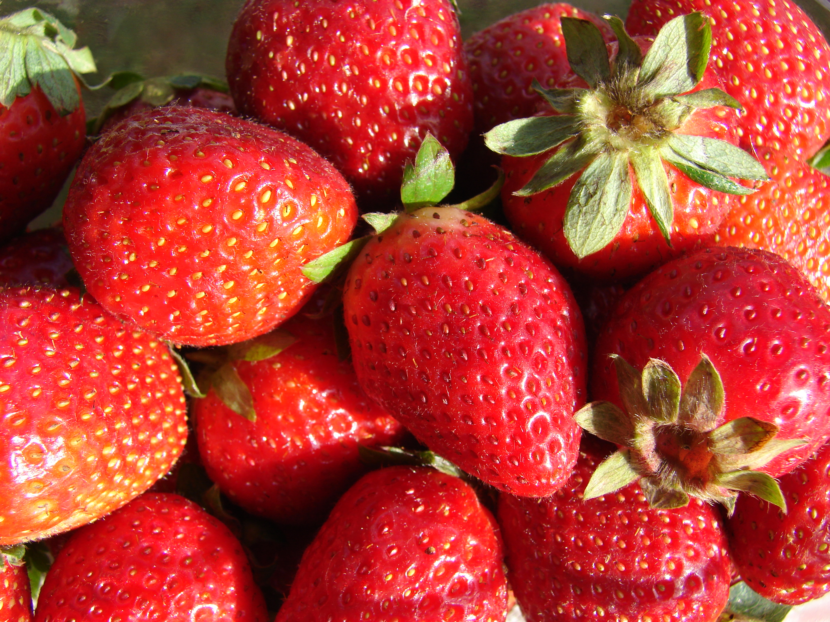 Fragaria x ananassa (fruit). Location: Maui, Makawao